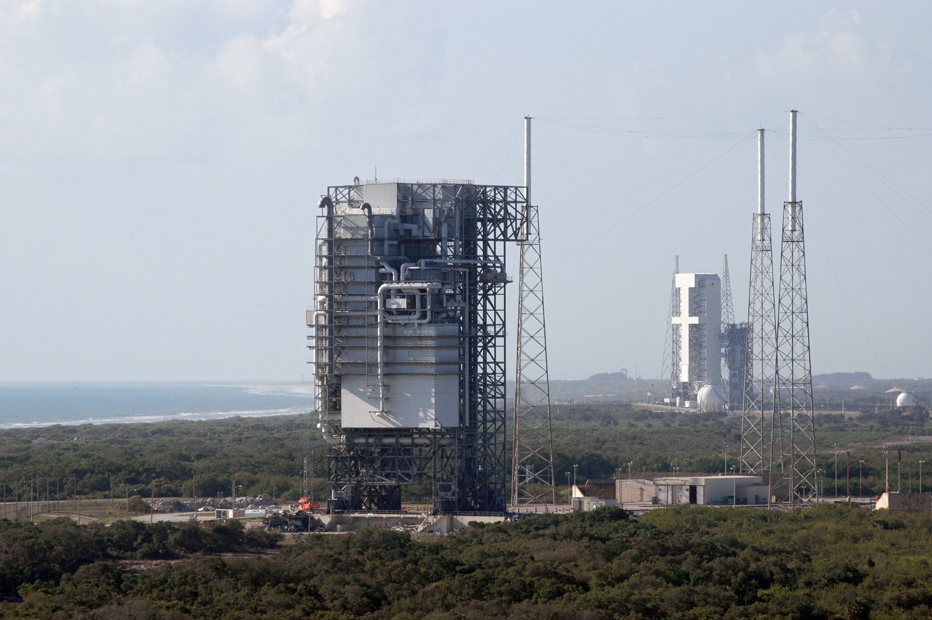 The mobile service tower, or gantry, in the foreground at Space Launch Complex 40 on Cape Canaveral Air Force Station, is scheduled for demolition. The tall lightning towers around it will remain. This mammoth structure, with its cavernous clean room, was used for the final spacecraft launch preparations for NASA’s Cassini spacecraft, currently orbiting Saturn. The launch occurred on Oct. 15, 1997, aboard an Air Force Titan IV-Centaur rocket. The facilities at the pad are being dismantled to make room for the construction of launch pad access and servicing facilities for the new Falcon rockets to be launched by Space Exploration Technologies, known as SpaceX. Space Launch Complex 37 is visible in the background.